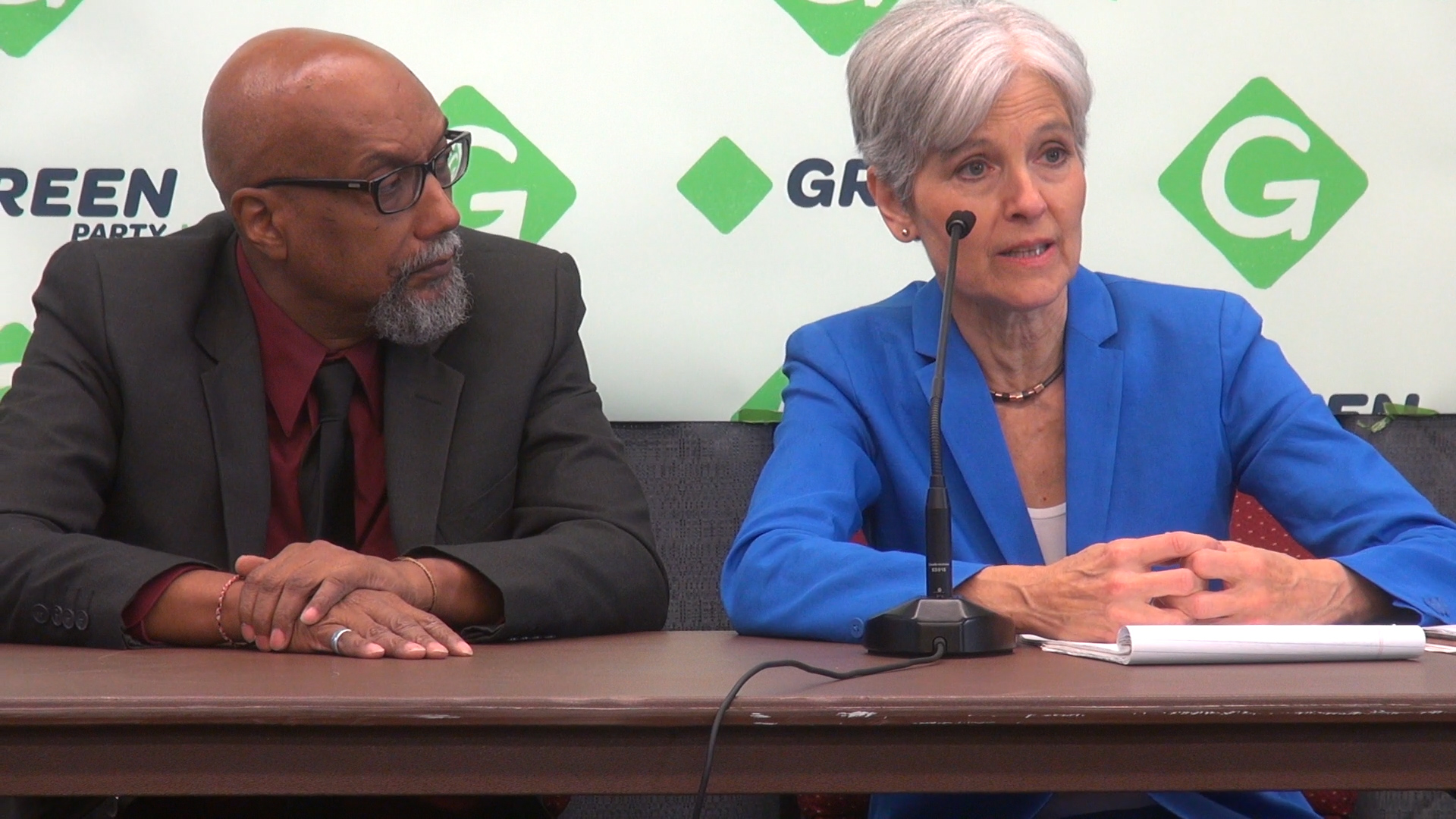 Jill Stein and Ajumu Baraka, the Green Party's ticket for the 2016 presidential election, appear at a news conference at the party's convention in Houston, Aug. 6, 2016. (G. Flakus/VOA)